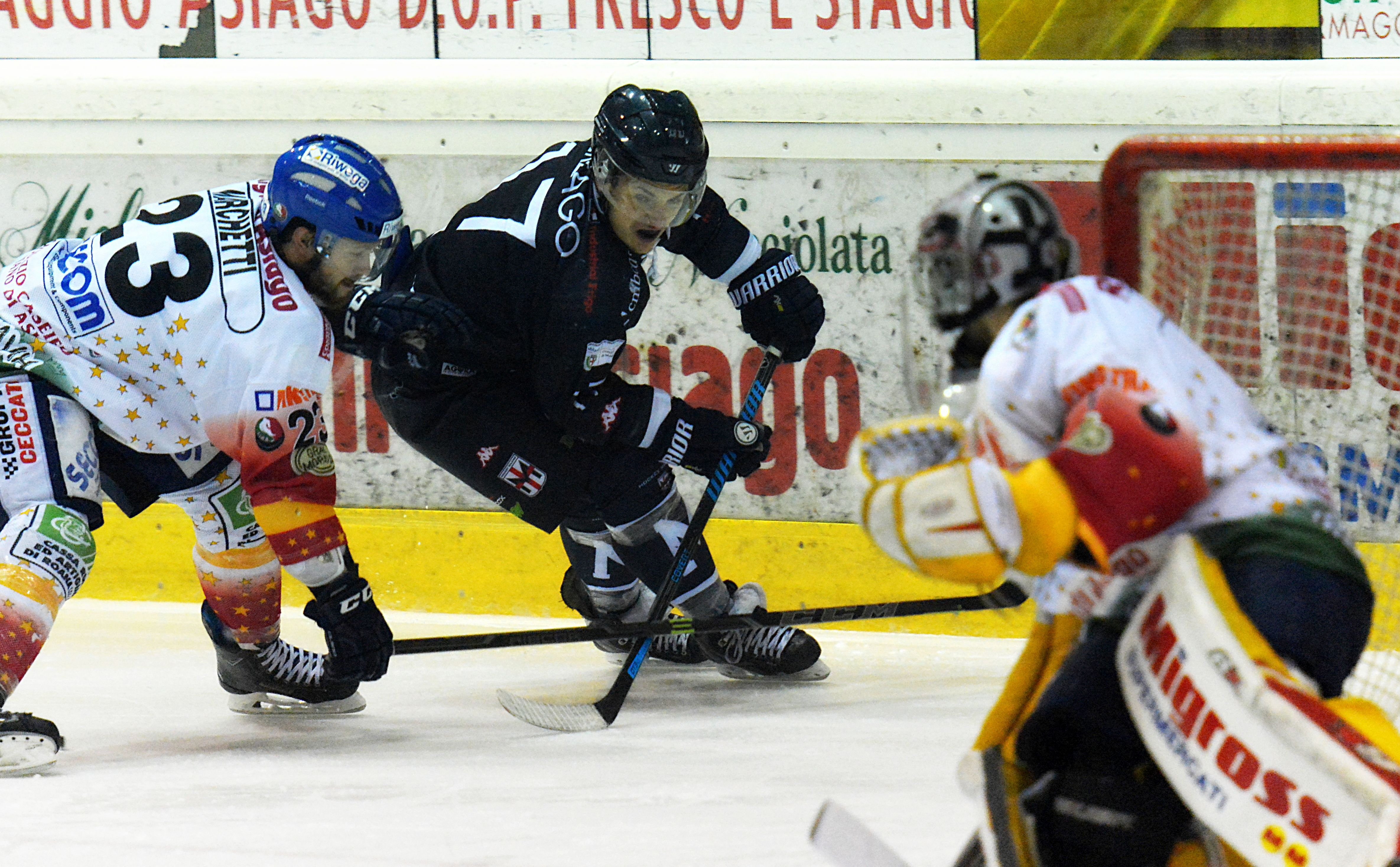 Tommaso Terzago in action in the match #3 of semifinal versus Asiago, Championship of A Series 2014/2015